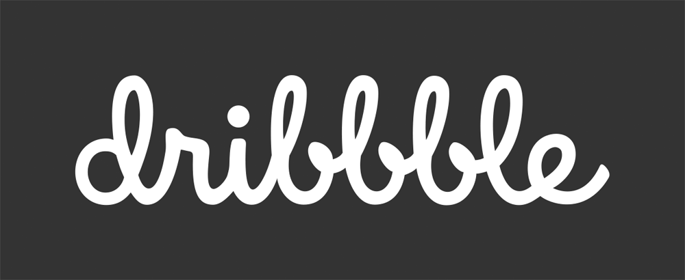 The logo of Dribbble